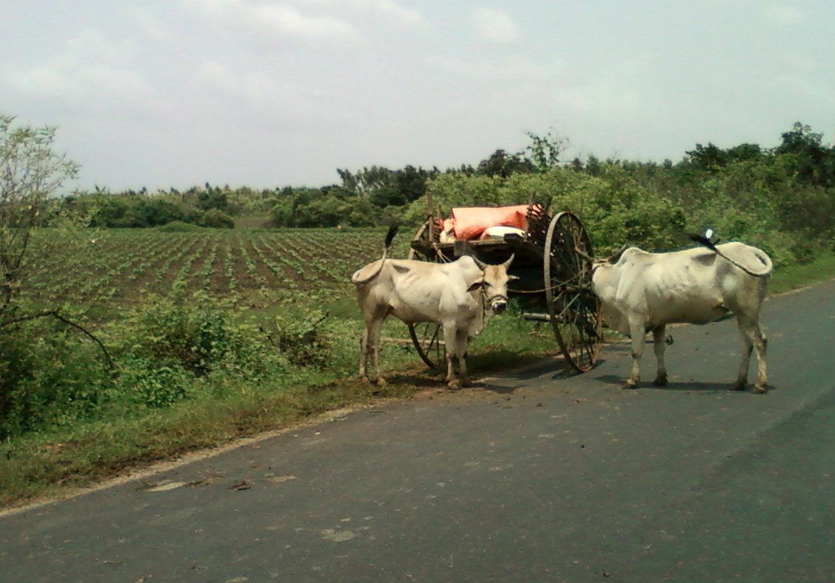 A Bullock cart near Pandrangi village, Visakhapatnam district